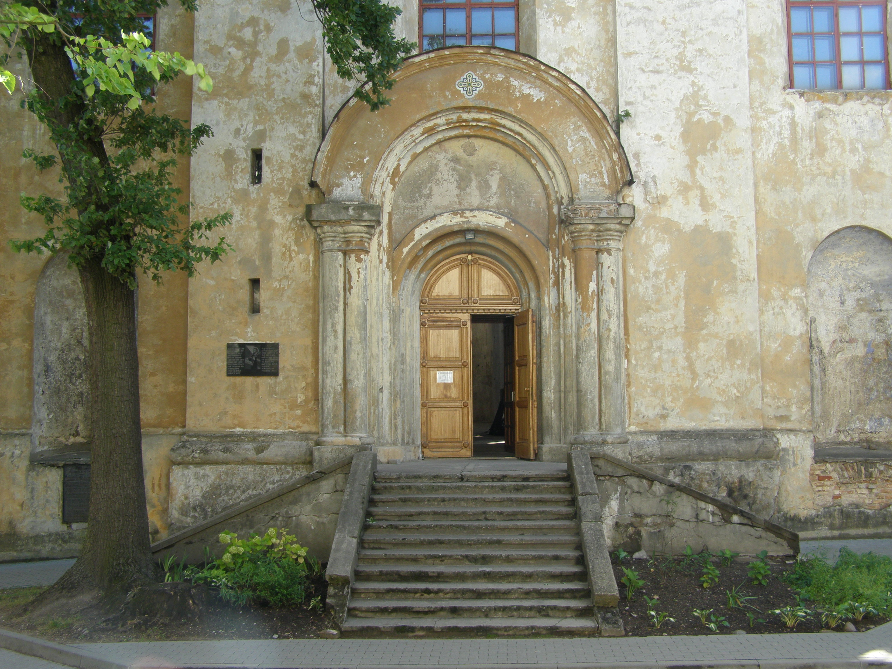 The entrance to the church of the Holy Trinity in Vilnius (Basilian)